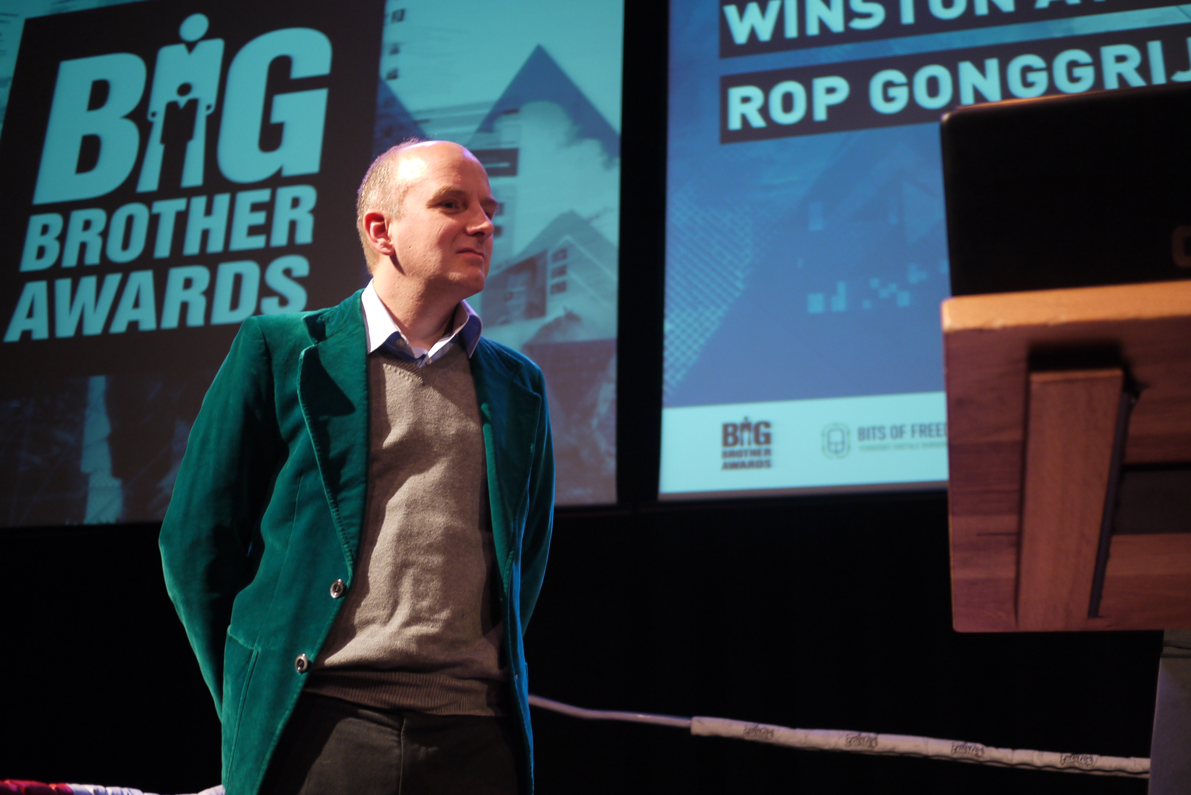 Rop Gonggrijp receiving the Winston Award at Big Brother Awards 2010